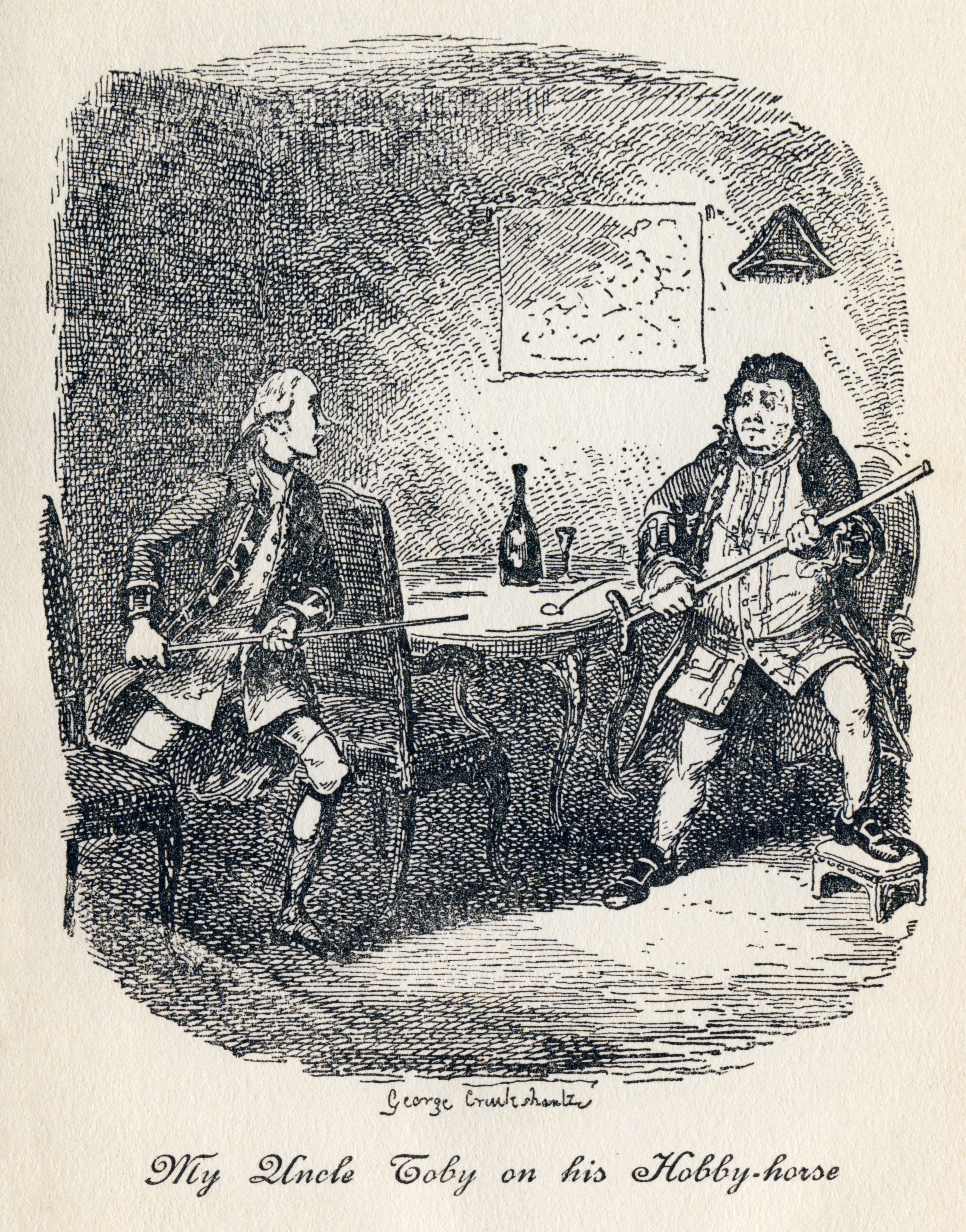 From George Cruikshank's illustrations to Laurence Sterne's Tristram Shandy. Plate V: My Uncle Toby on his Hobby-horse. Hobby-horse, in this case, refers to a particular obsession of a person. In this case, Toby and Trim get caught up with discussions of the military, to the point of acting it out. (Book IV, Chapter XVIII)